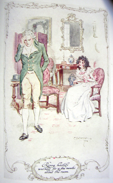 Sense and Sensibility (Jane Austen novel) ch 31 : Colonel Brandon had just related Eliza's story and Elinor is affected by that relation and by his distress.